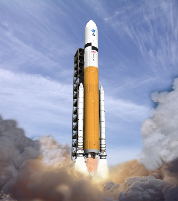 Ares V JSC2008e039782, 2008 --- The Ares V Cargo Launch Vehicle is also in development at Marshall and will be the primary heavy lifter for Constellation. At a height of 109.2 meters and a diameter of 8.40 meters, the Ares V will be comparable in size to the Apollo-era Saturn V. A core stage twice as large as the Shuttle External Tank and powered by five RS-68 engines (rated at 3,340 kN of thrust each) will be supplemented with two five-segment SRBs identical to those used by the Ares I rocket. The core stage will deliver 130,000 kg to Low Earth Orbit from pad LC-39A at Kennedy Space Center.